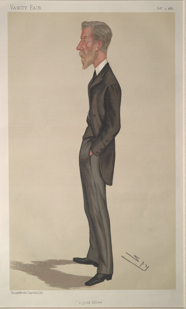 Statesmen No.501: Caricature of Lord E Cavendish MP. Caption reads: "a good fellow"